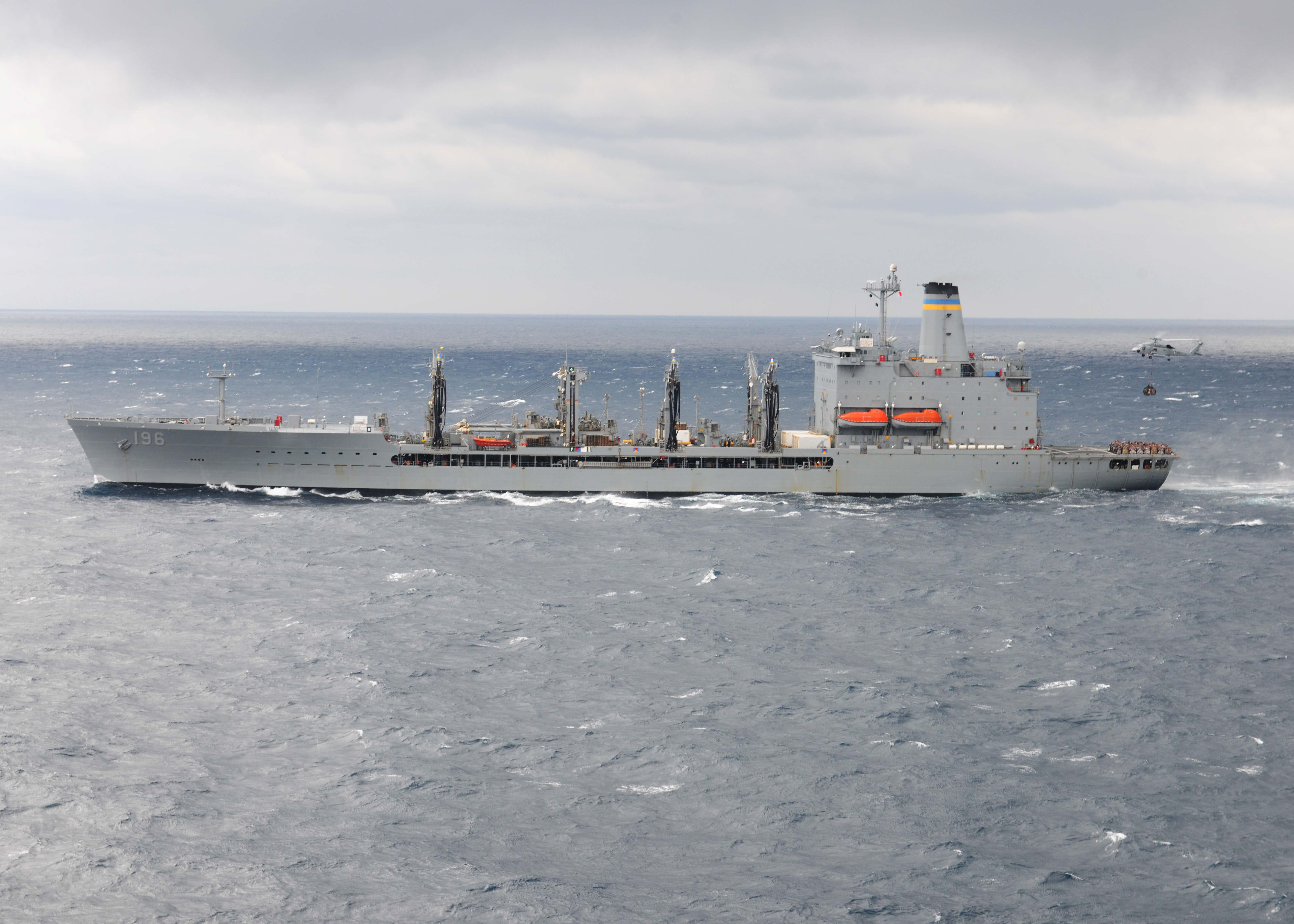 A U.S. Navy Sikorsky SH-60F Seahawk assigned to Helicopter Anti-Submarine Squadron (HS) 11 "Dragonslaysers" picks up a pallet of supplies from the Military Sealift Command fleet replenishment oiler USNS Kanawha (T-AO-196) for delivery to the aircraft carrier USS Theodore Roosevelt (CVN-71) during a vertical replenishment in the Atlantic Ocean. Theodore Roosevelt was underway conducting training.